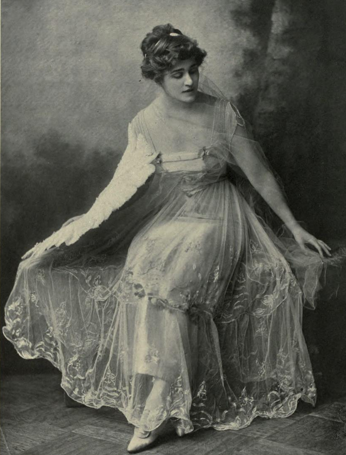 Actress Ivy Troutman in the 1915 play Sadie Love, from the January 1916 issue of Theatre Magazine